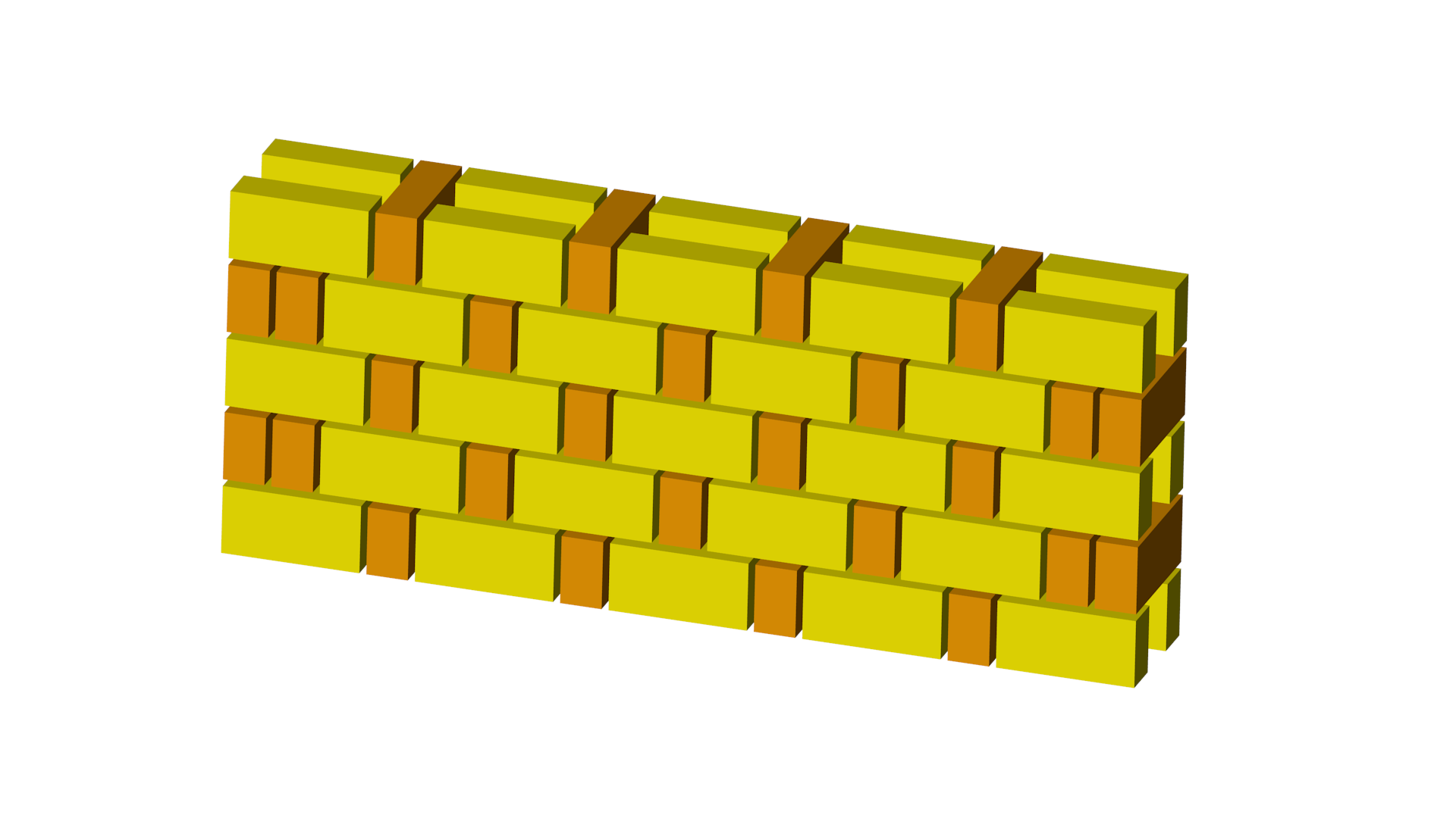 Rat-trap bond (Chinese bond)